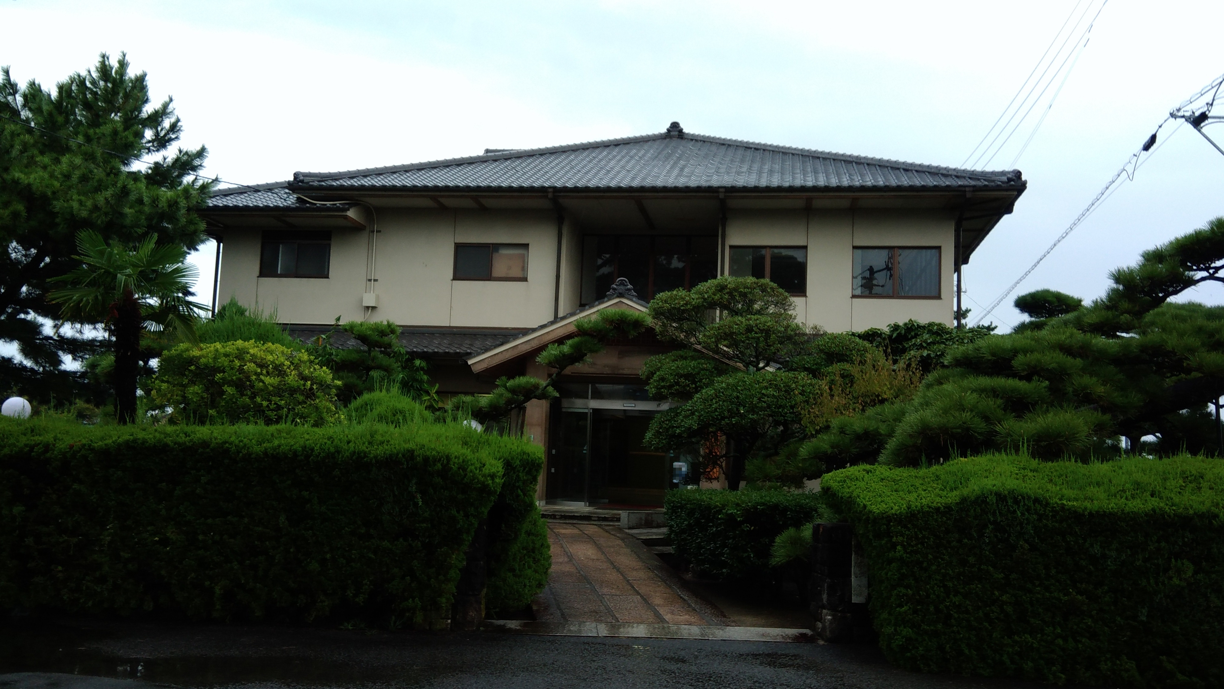 Saihinkan (彩浜館) at Goshikihama Park (五色浜公園), Iyo City, Ehime Prefecture, Japan